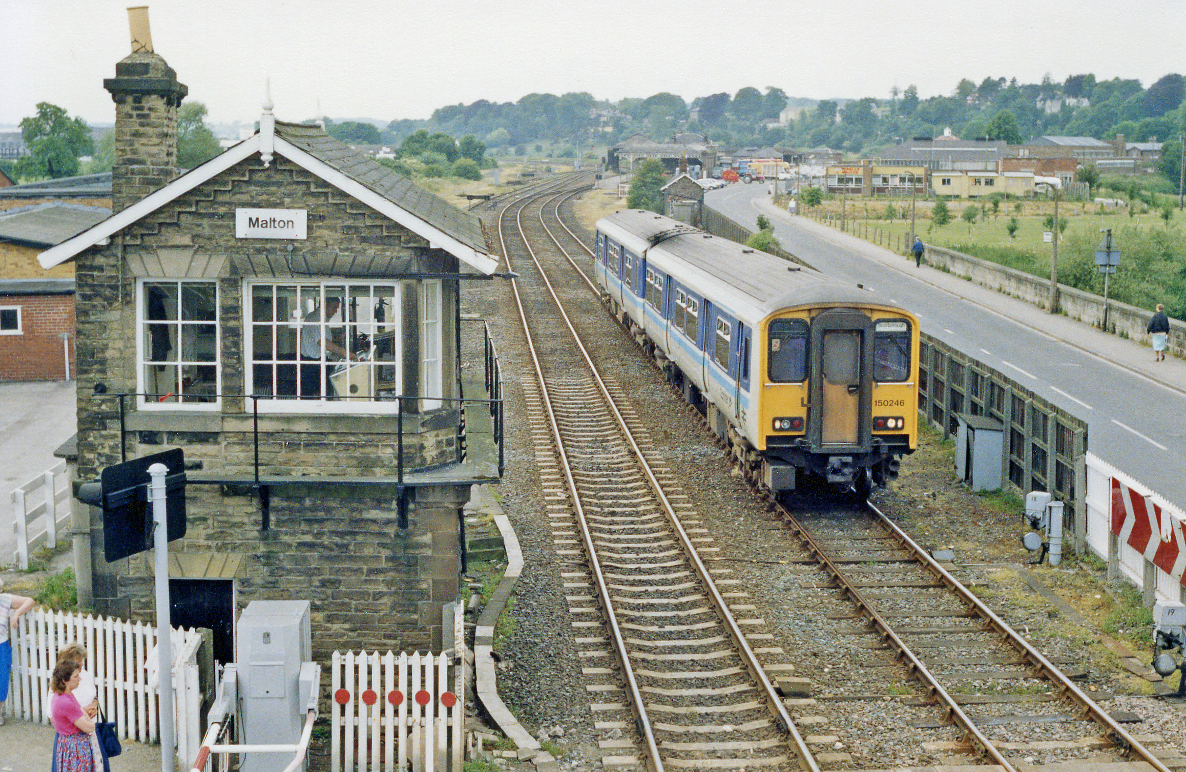 Malton: signalbox and train for Scarborough passing, 1988. View westward from a footbridge (later demolished) by the B1248 level-crossing, at Malton (former Malton East) Box, east of the station. This is main line of the ex-NER York - Scarborough (formerly also to Whitby via Rillington, closed 8/3/66 as far as Pickering, goods 4/7/66). Malton had been the junction of branches from Driffield (closed 5/6/50, goods 20/10/58), and Pilmoor via Gilling (local services ceased 31/12/30, but through holiday trains continued until 8/9/62, with goods ceasing west of Amortherby 2/2/53, the rest 19/10/64). The train comiing away from Malton station (just out sight) is the 09.42 express Liverpool Lime Street - Scarborough, consisting of a Class 150 DMU.